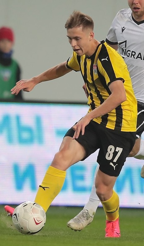 Kirill Bozhenov with FC Khimki in a Russian Cup quarterfinal against FC Torpedo Moscow.